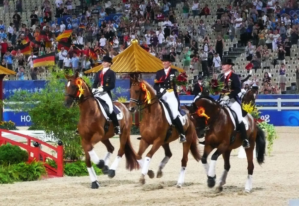 The Gold medalists - Germany Riders in Beijing 2008 Olympic Game - Equestrian Event - Victory Ceremony of Dressge Team Grand Prix. (Nadine Capellmann and Elvis VA (Espri - Garibaldi II), Heike Kemmer and Bonaparte (Bon Bonaparte - Consul), Isabell Werth and Satchmo (Sao Paulo - Legat); all horses are Hanoverian geldings.)